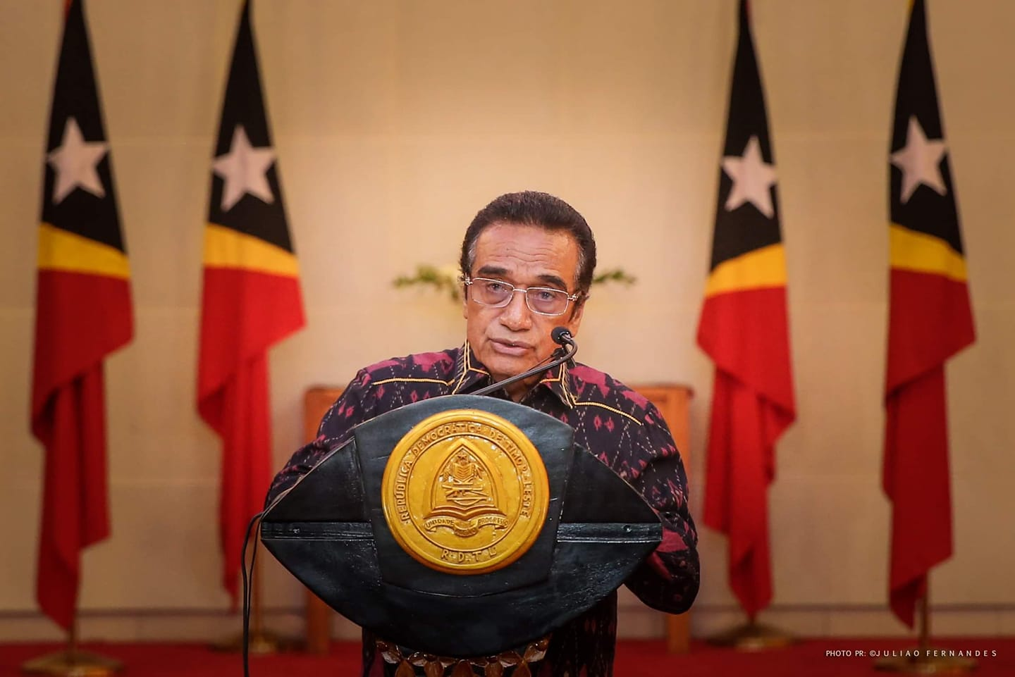 Statement of president Francisco Guterres, East Timor